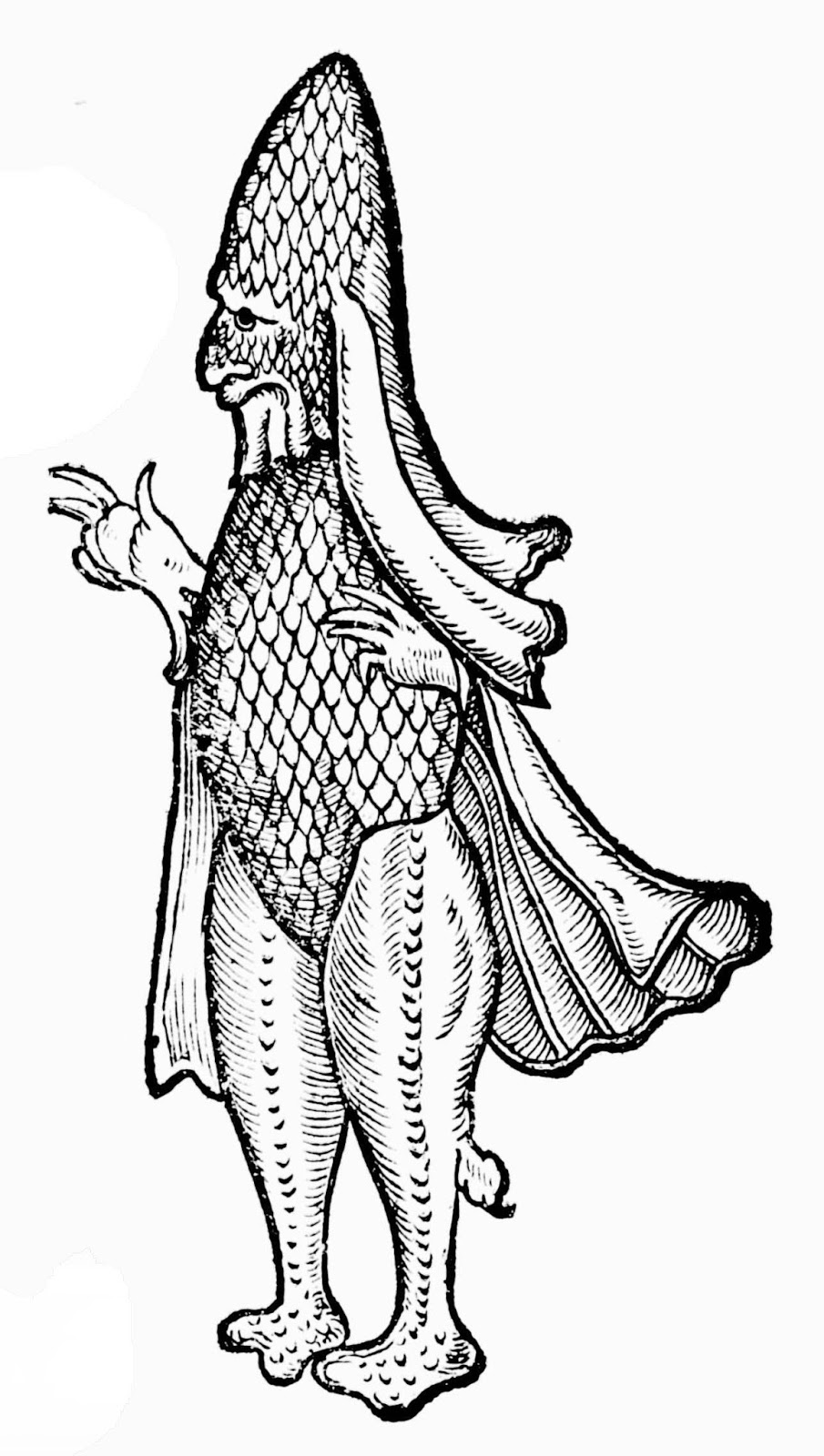 Sea Bishop from